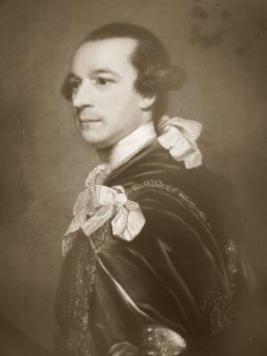 Portrait of Charles Watson-Wentworth, 2nd Marquess of Rockingham